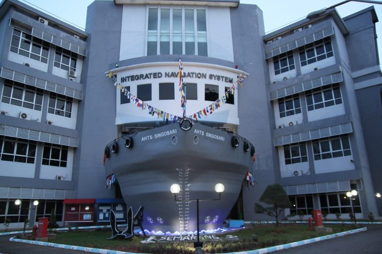 MERCHANT MARINE POLYTECHNIC OF SEMARANG